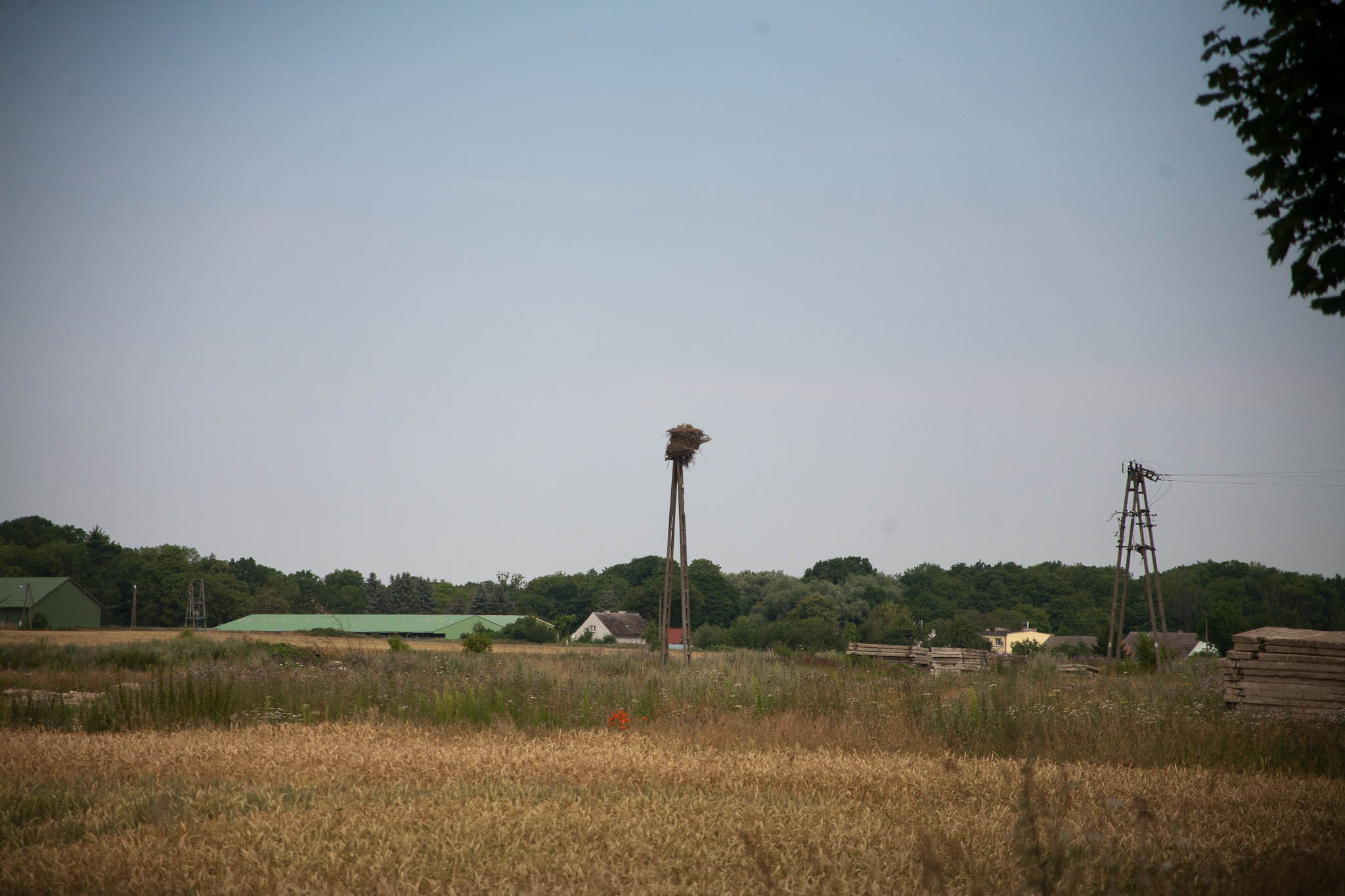 Stork nest in Myślino, Poland